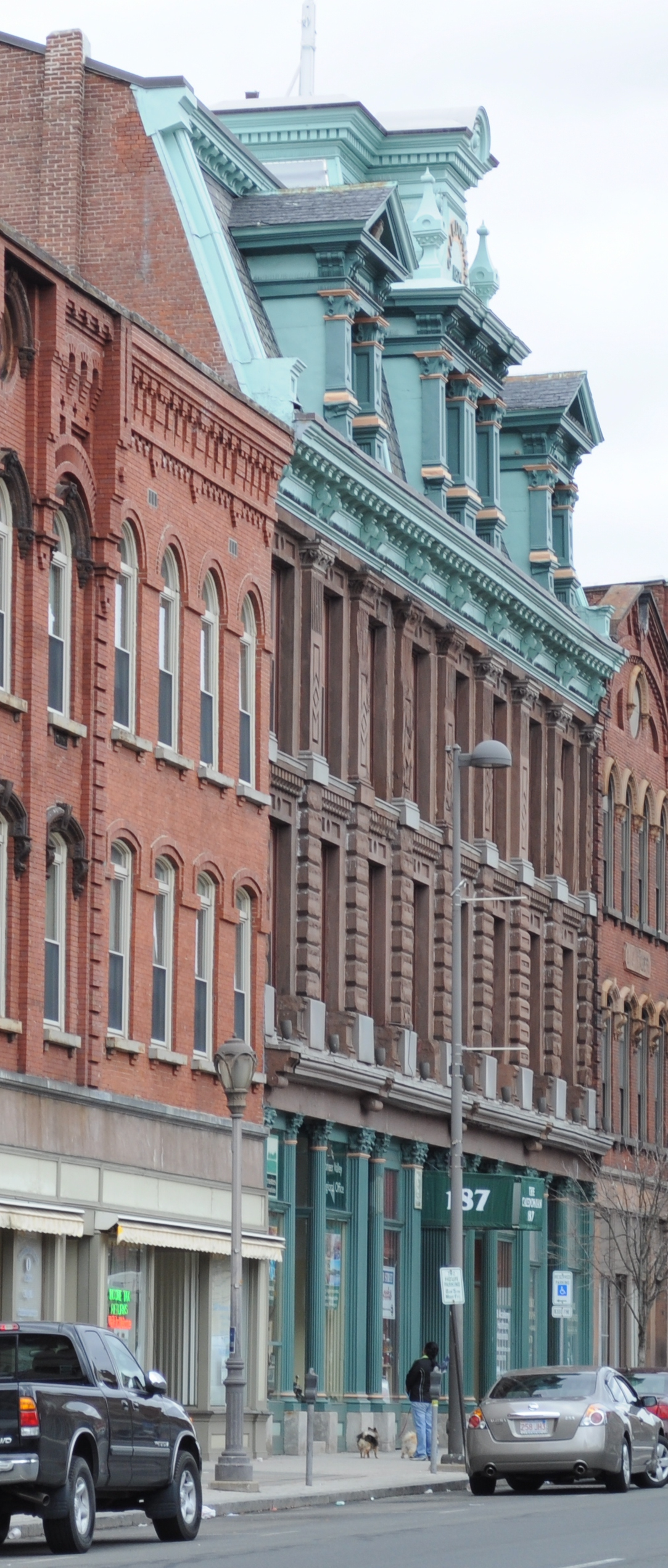 Caledonia Building, 185-193 High Street, Holyoke, Massachusetts, USA, listed on the National Register of Historic Places.